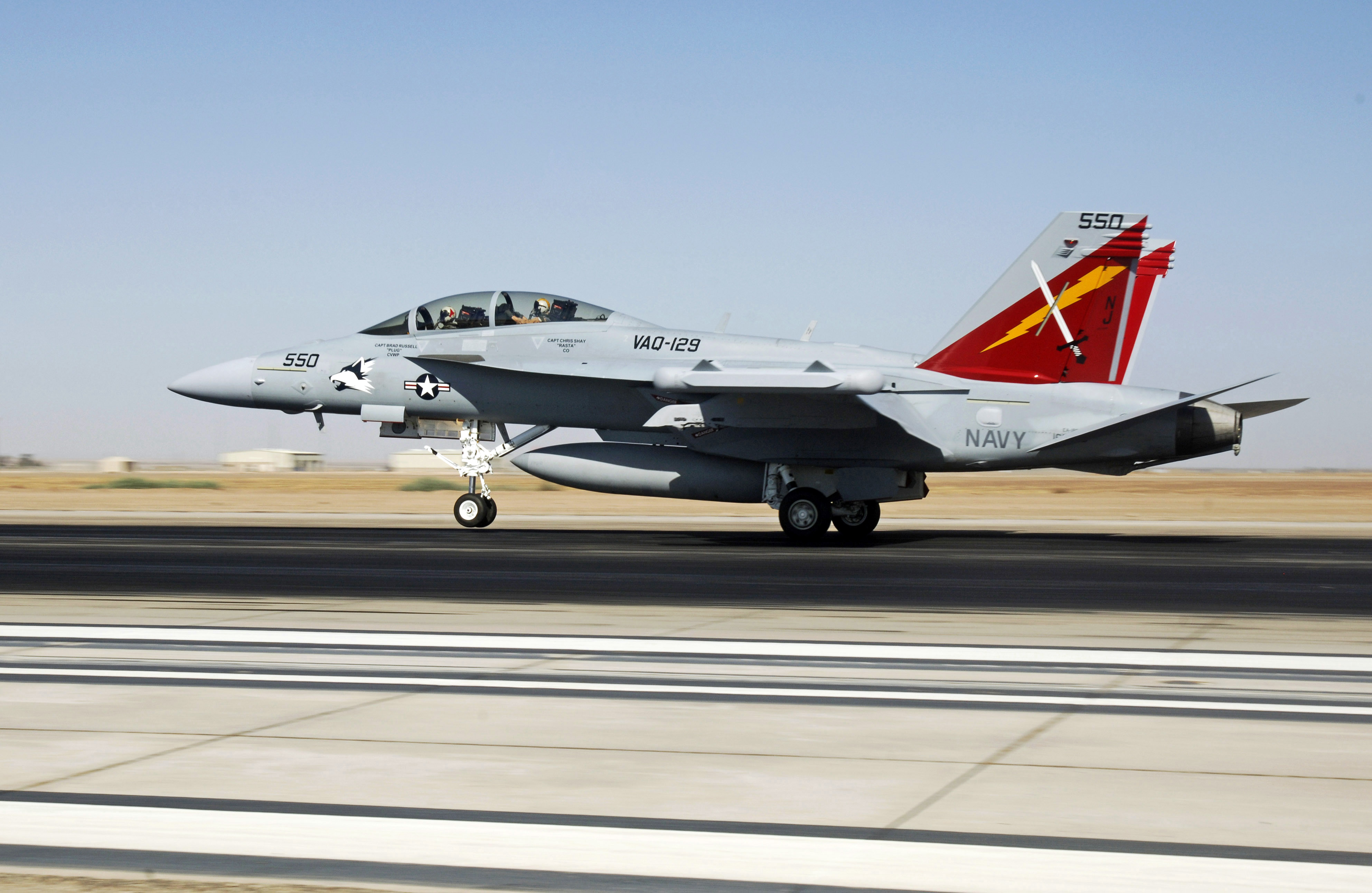 081029-N-5617R-128 EL CENTRO, Calif. (Oct. 29, 2008) An EA-18G Growler, assigned to the "Vikings" of Electronic Attack Squadron (VAQ) 129, takes off at Naval Air Facility El Centro during a training exercise. VAQ-129 began transitioning and training pilot instructors to fly the Growler to replace the fleet's current carrier-based EA-6B Prowler. (U.S. Navy photo by Mass Communication Specialist 3rd Class Rialyn Rodrigo/Released)